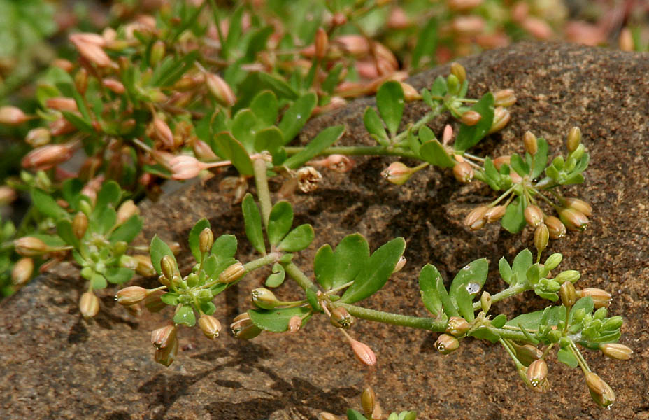 Glinus oppositifolius (syn. Mollugo oppositifolia, Mollugo spergula)- bitter cumin, bitter leaf, Indian chickweed •